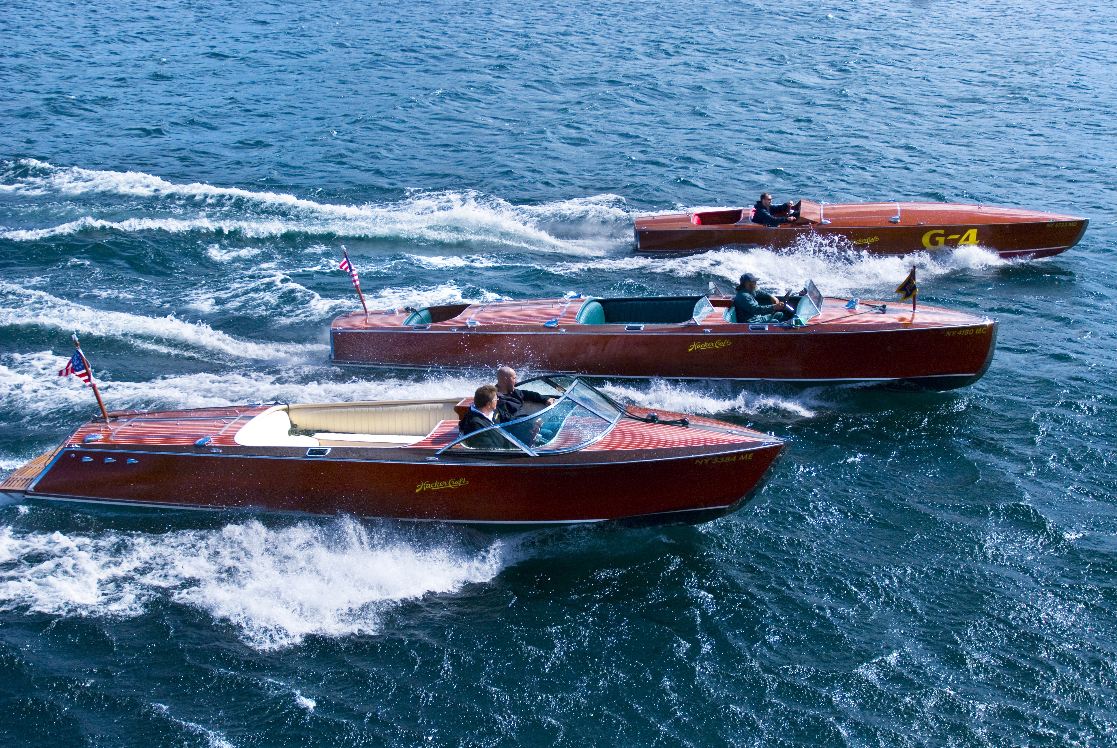 Hacker-Craft's current Gentleman's Racer, Runabout and Sport models at speed on Lake George